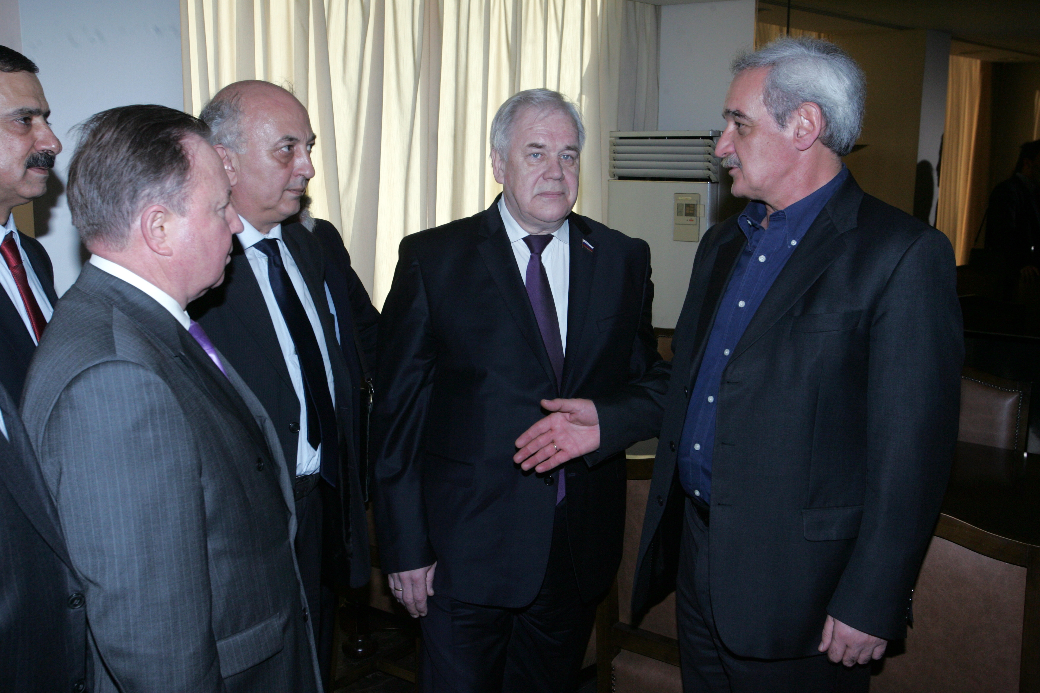 Sergei Aleksandrovich Popov, President of the Interparliamentary Assembly on Orthodoxy, 2015 in Athens.